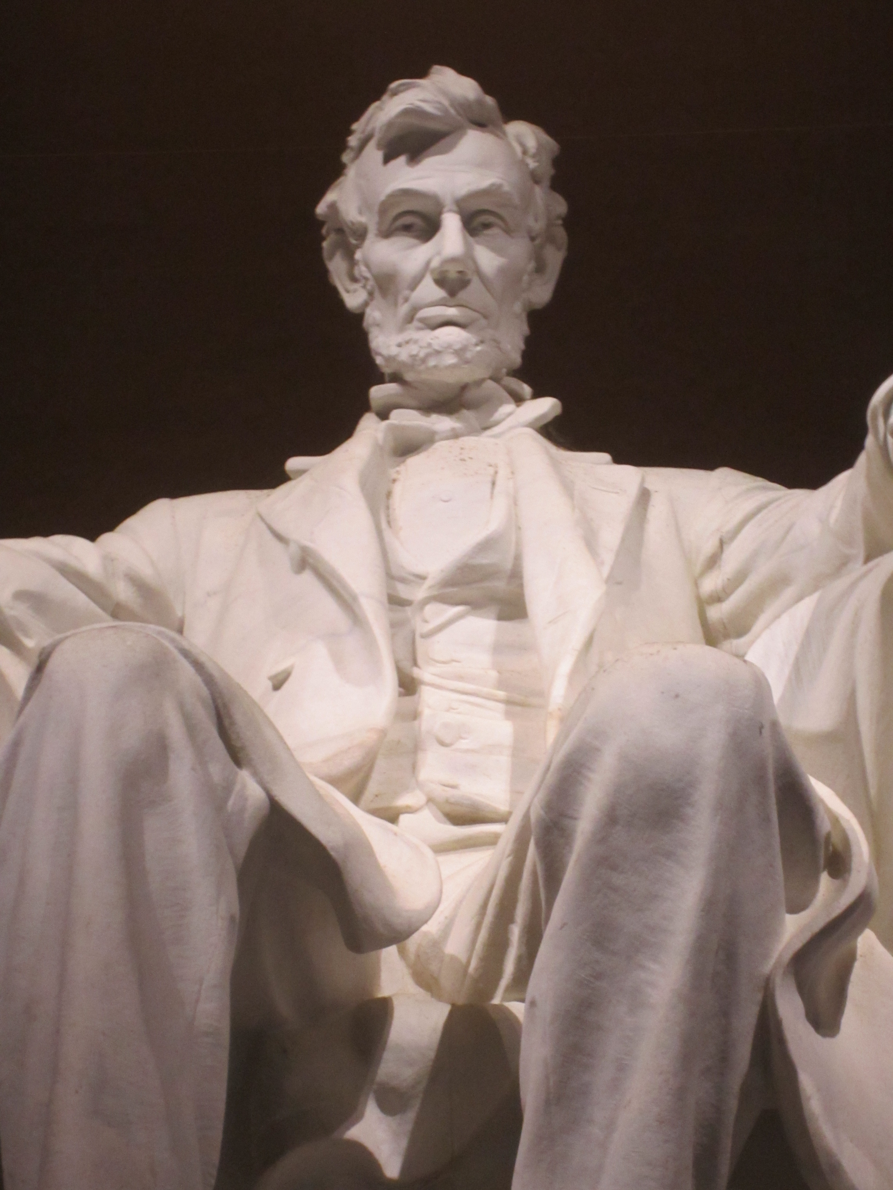 Lincoln Memorial, Washington, D.C. in 2012